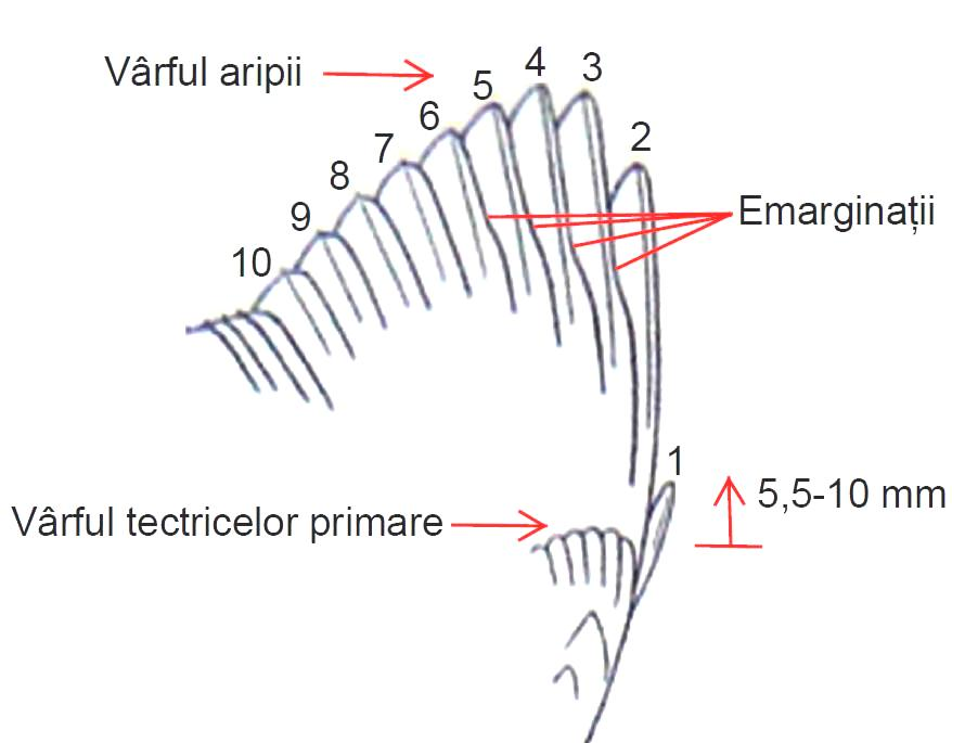 Wing formula of Greenish warbler (Phylloscopus trochiloides)